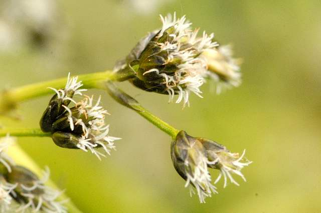 Scirpus sylvaticus from Commanster, Belgian High Ardennes .